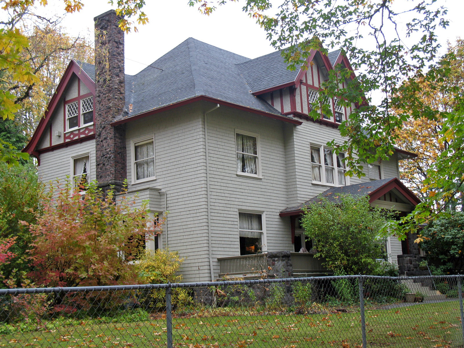 National Register of Historic Places listings in Northeast Portland, Oregon. Frank Silas Doernbacher House, 2323 NE Tillamook St, Portland, OR. Photographed October 25, 2009 from the north side of NE Tillamook St. between NE 23rd and NE 24th Ave.